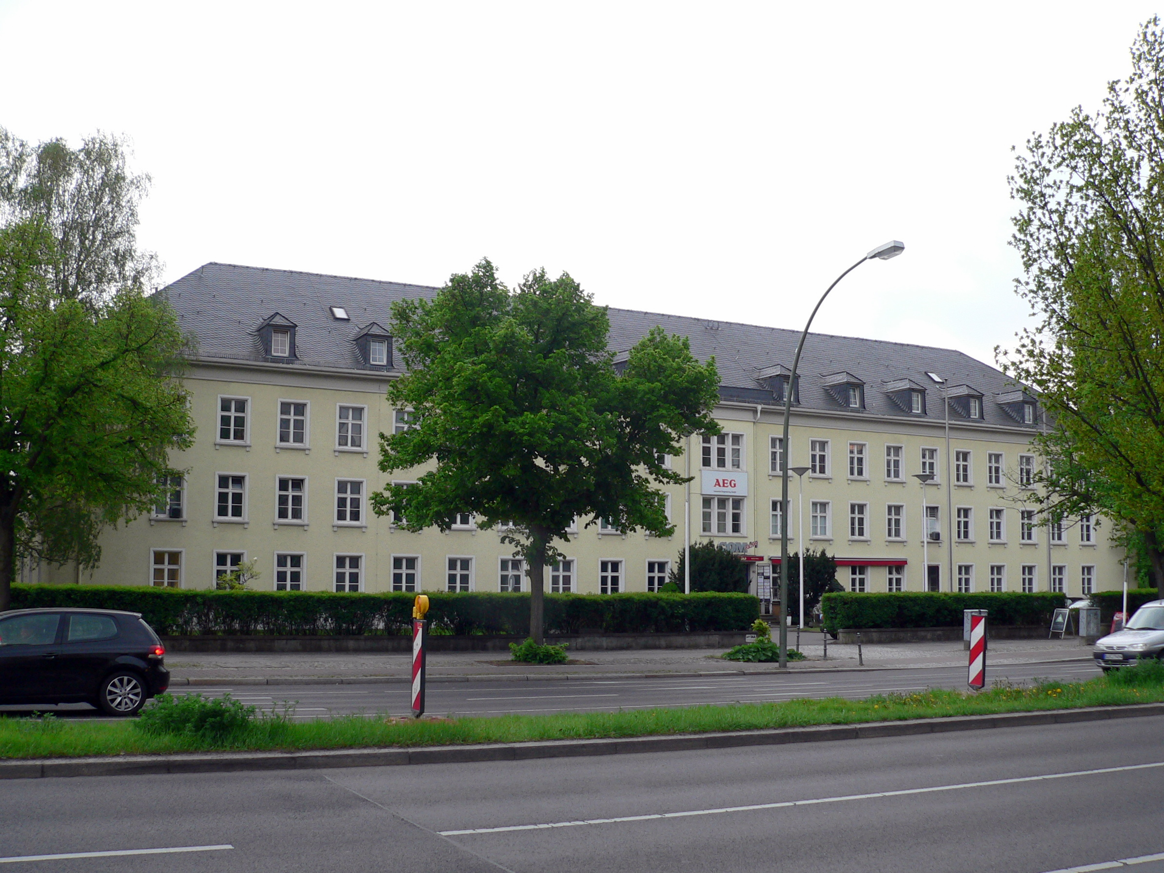 Berlin-Schmargendorf Hohenzollerndamm ehem. Wehrkreiskommando III